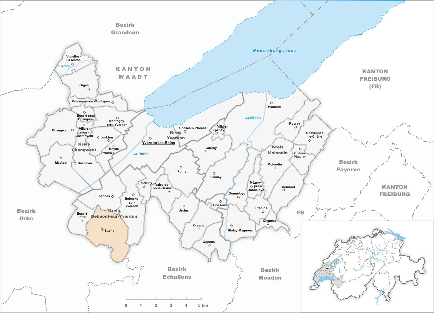 Municipality Suchy